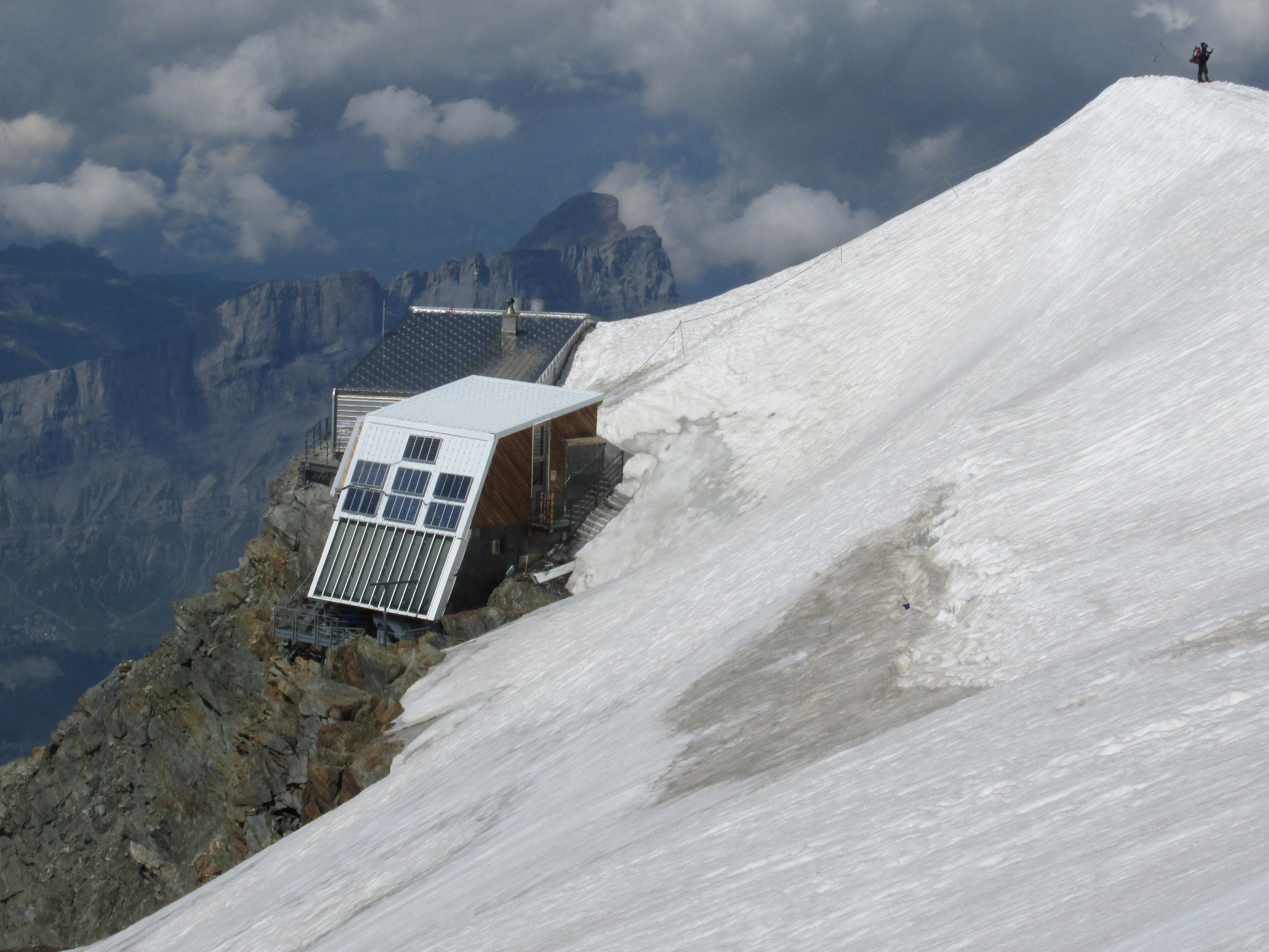 The old Goûter Hut with the winter shelter in the foreground.